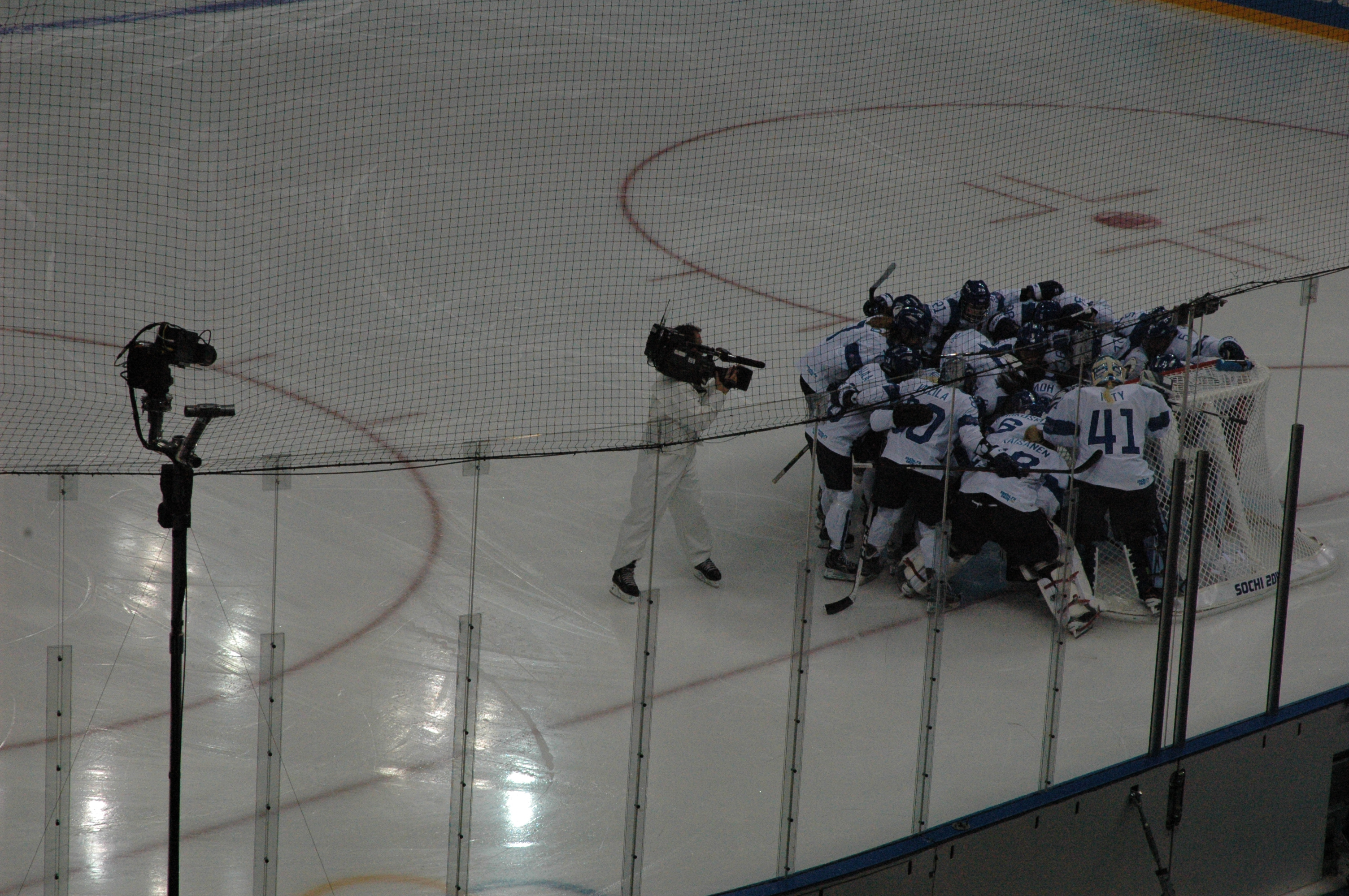 Women's quarterfinal, 2014 Winter Olympics, SWE-FIN